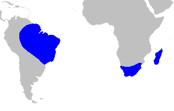 Plant family Strelitziaceae distribution map